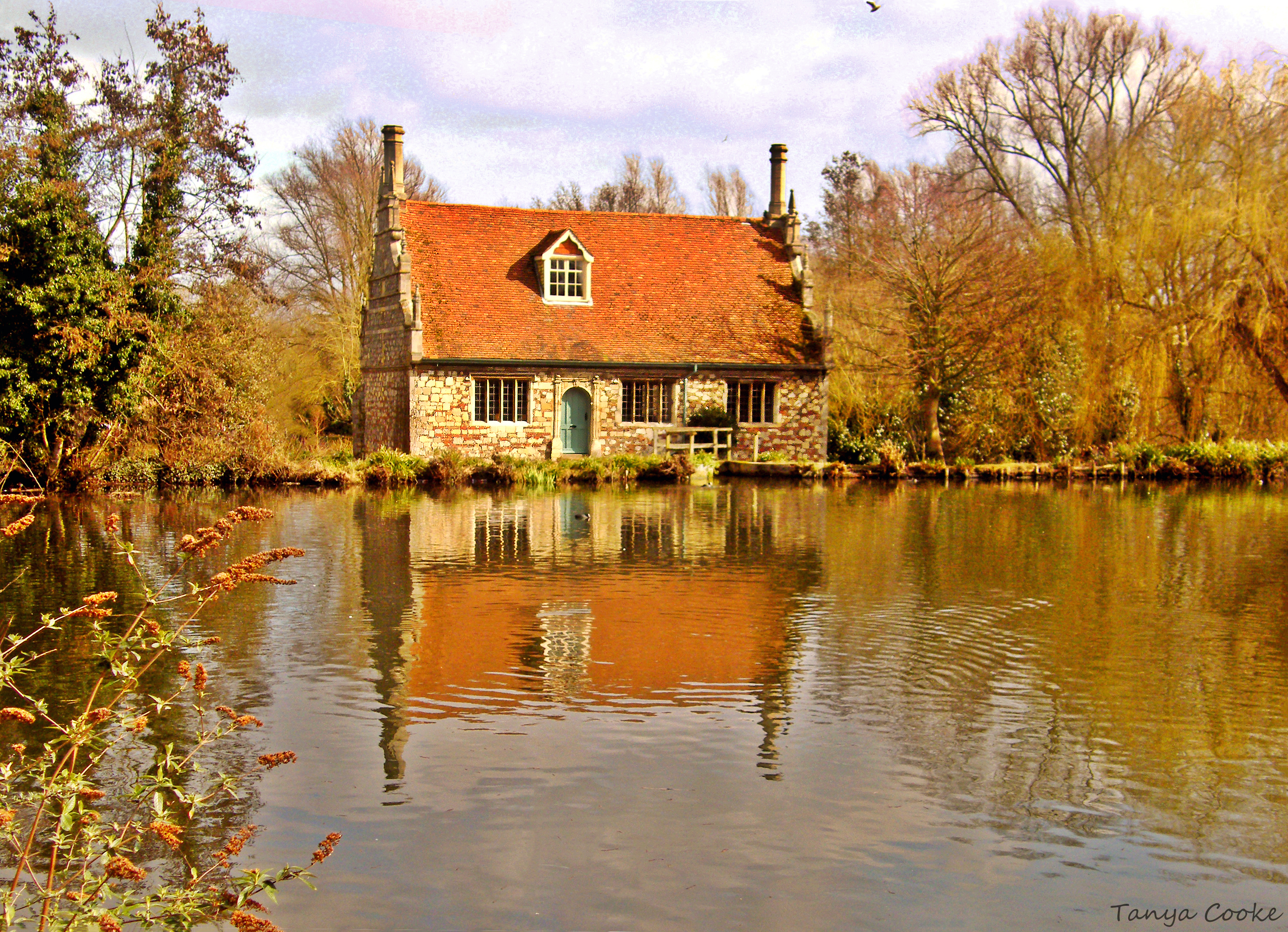 BOURNE MILL Wikidata has entry Q17536543 with data related to this building.